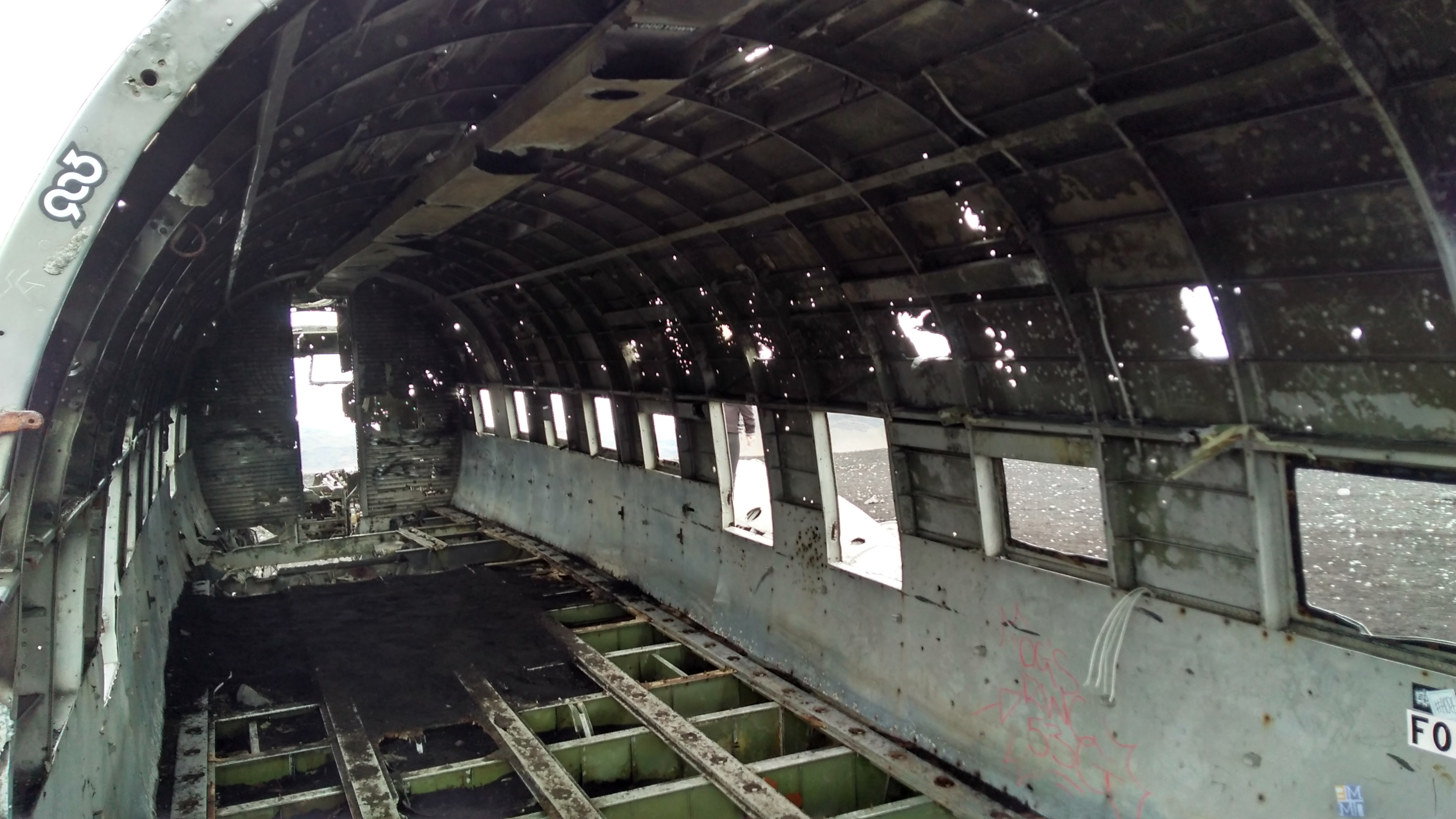 Sólheimasandur Plane Wreck, South Iceland